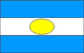 Kuressaare valla lipp (1995–1999)